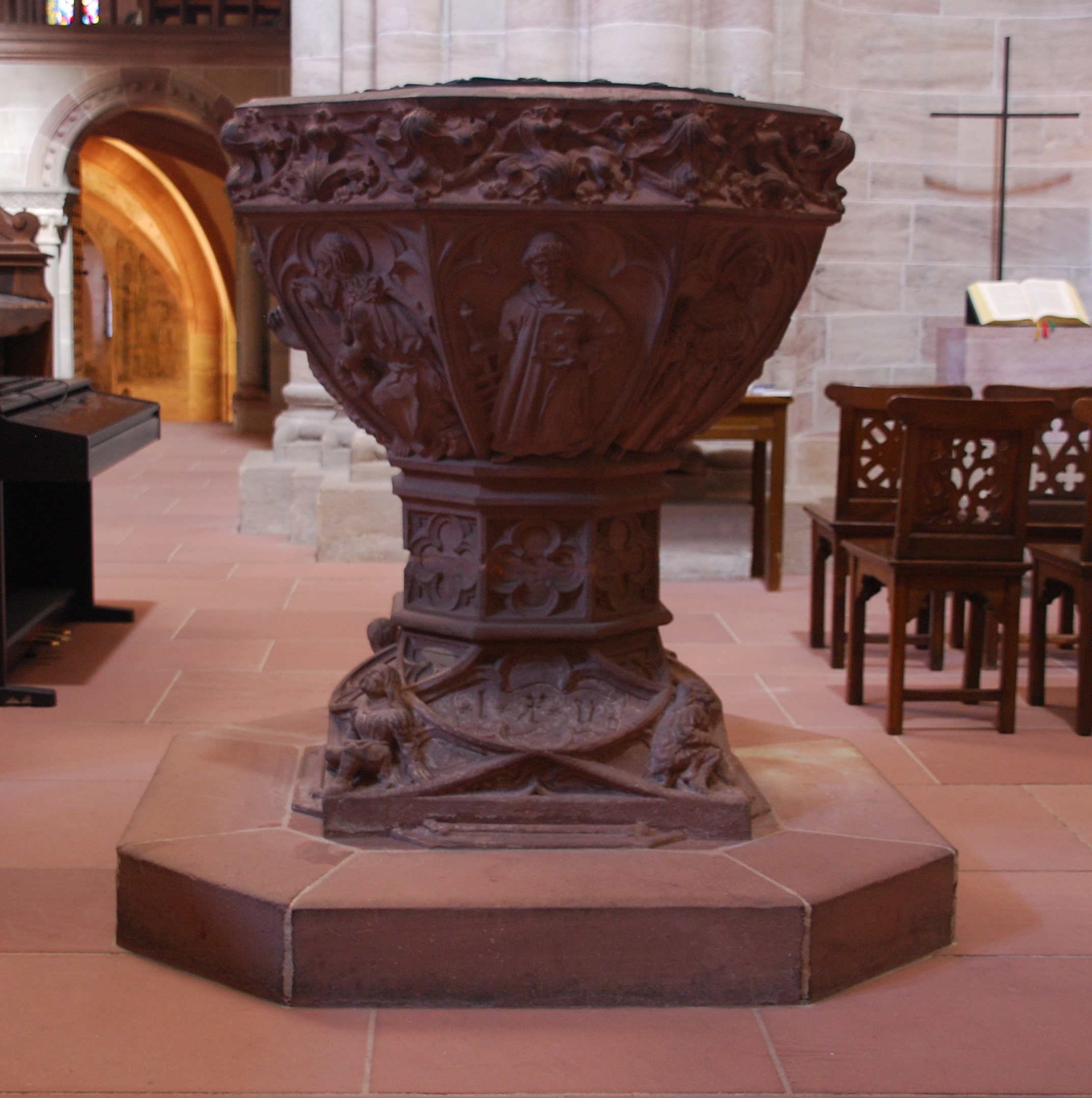 Basel's cathedral baptistery.